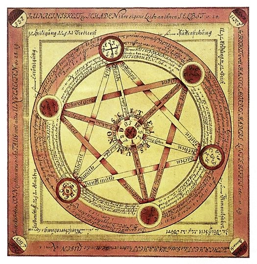 Solomon Seal by Abraham von Franckenberg, in Raphael oder Artzt - Engel, Amsterdam 1676 (written in 1639)